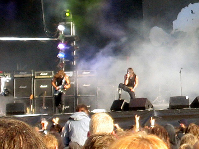 Marduk at Wacken Open Air 2005.